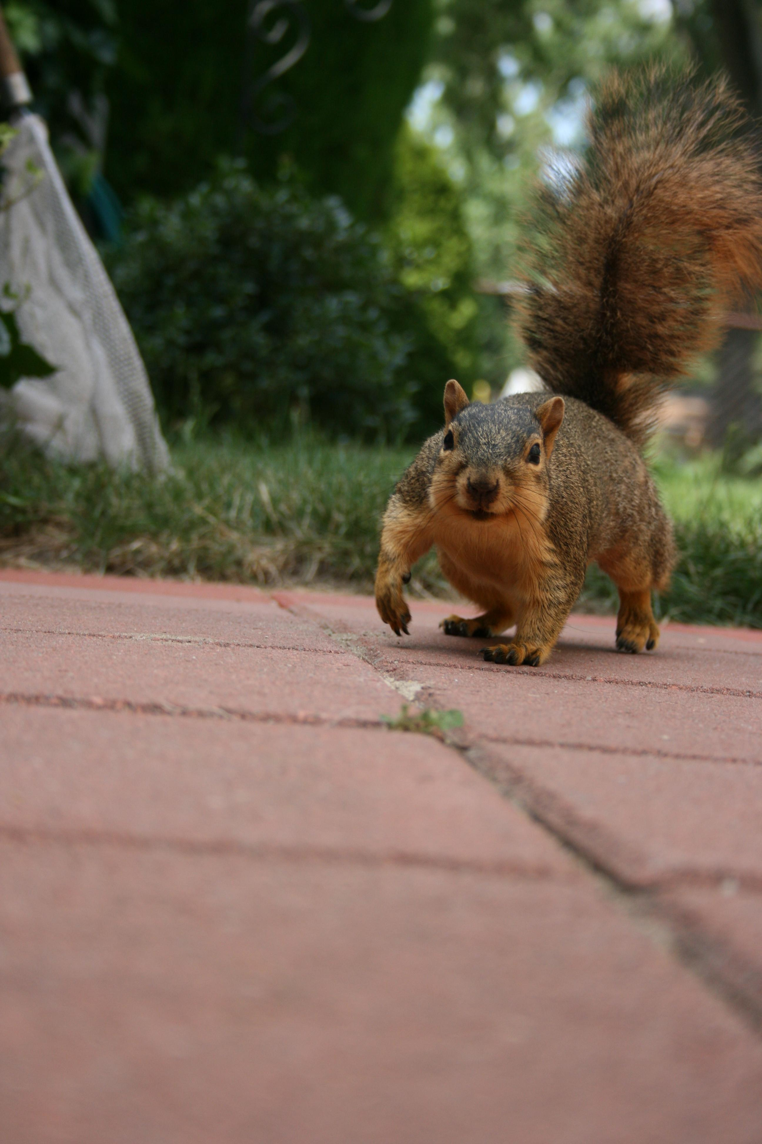 Picture of a Sciurus niger in the back yard. Taken in Portage, MI.